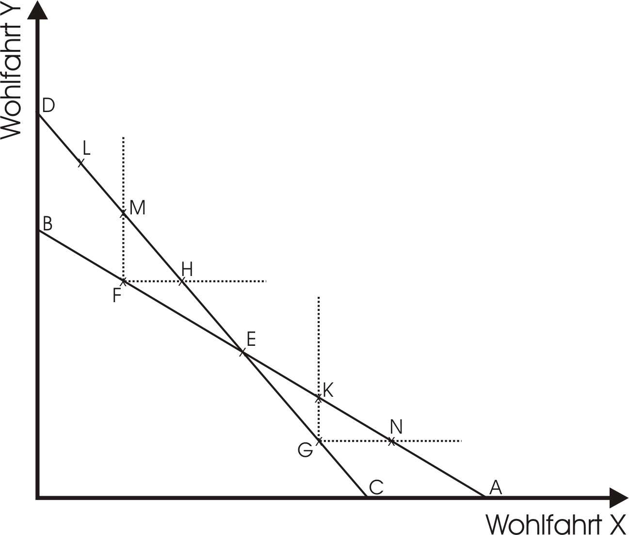 Picture referring to the Kaldor-Hicks-Criterion.